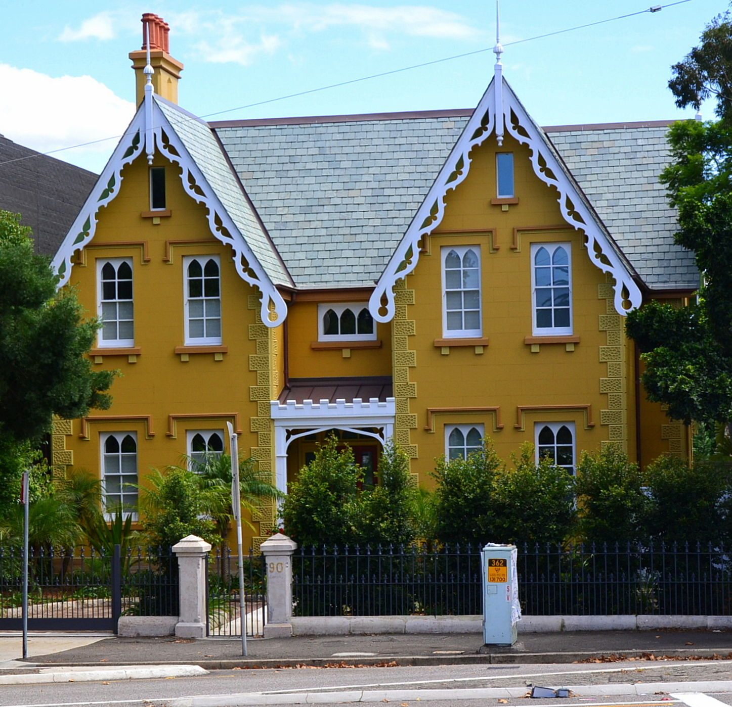 house, Woollahra, Sydney